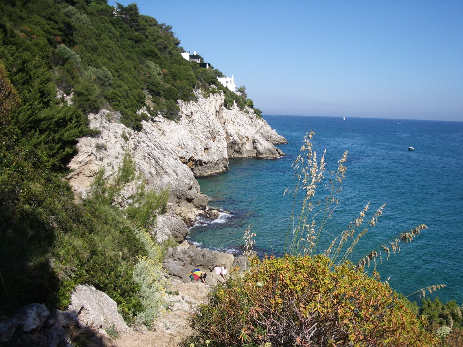 Sentiero che porta alla grotta delle Capre (Circeo)